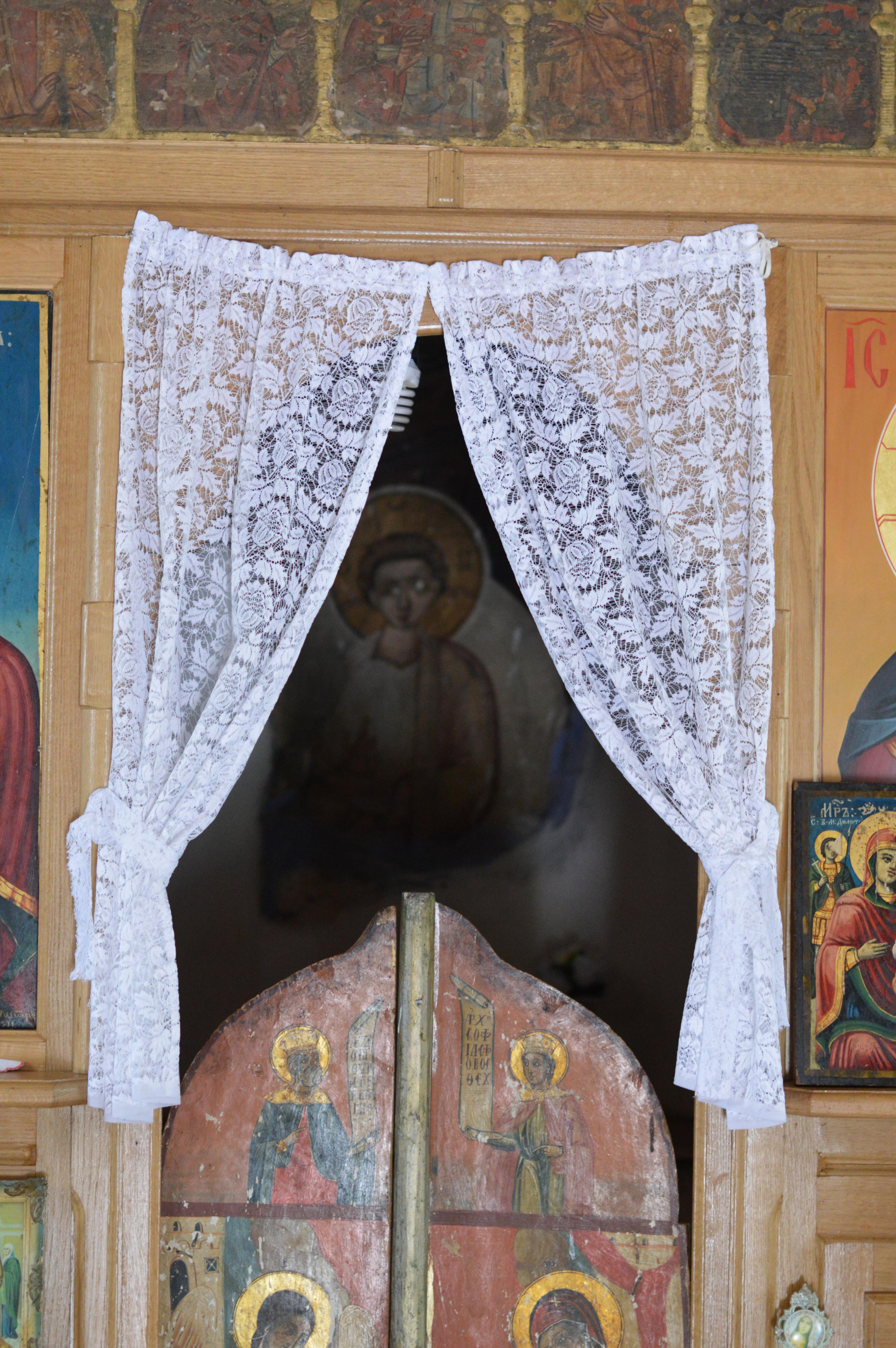 Слики од WikiCamp 2 ден